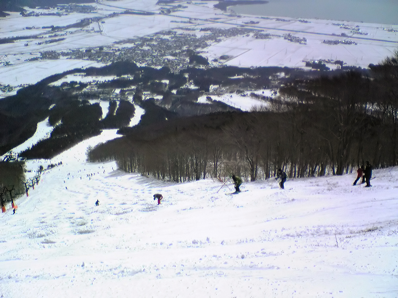 Inawashiro Ski Area